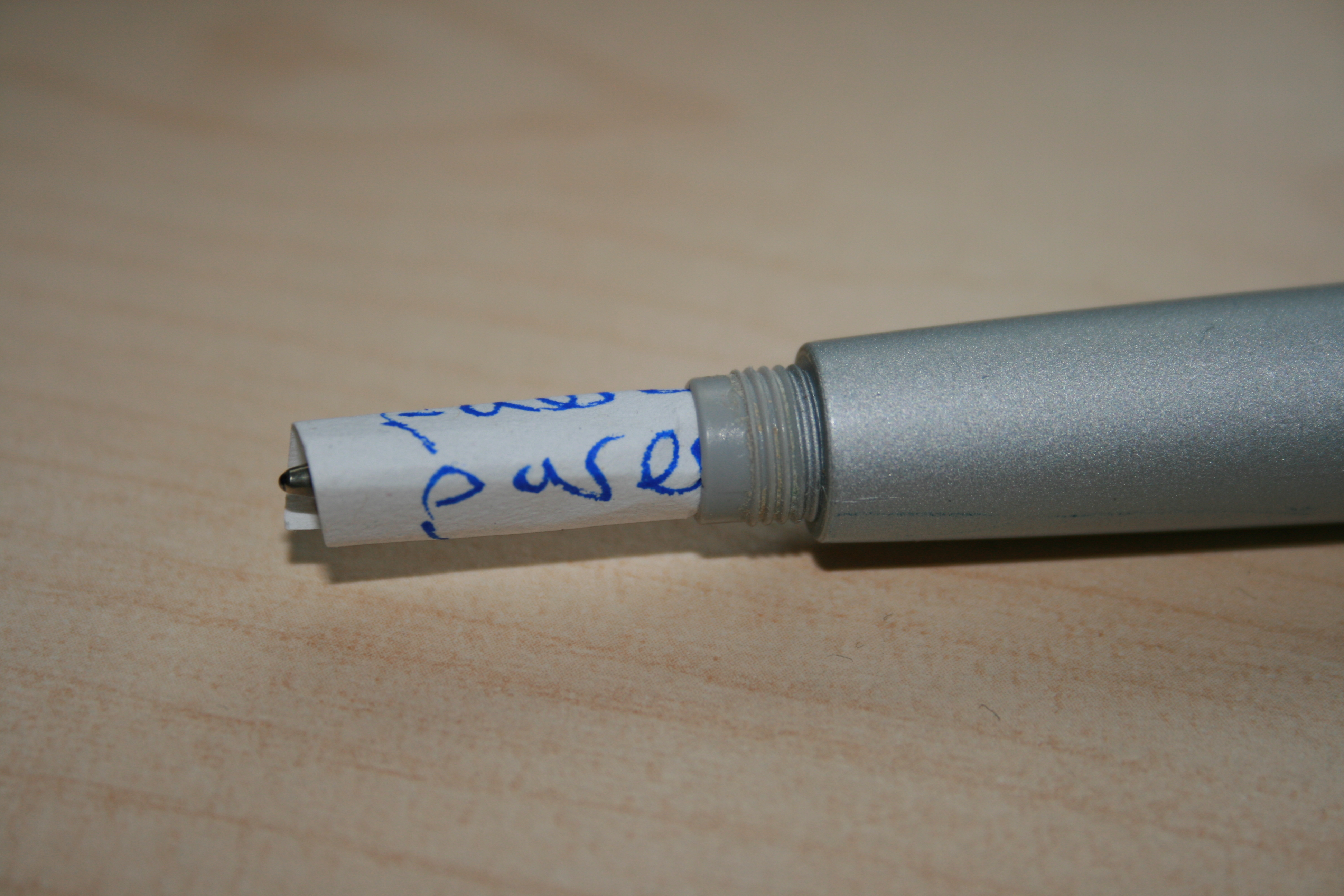 Cheat sheet in a rollerpen.